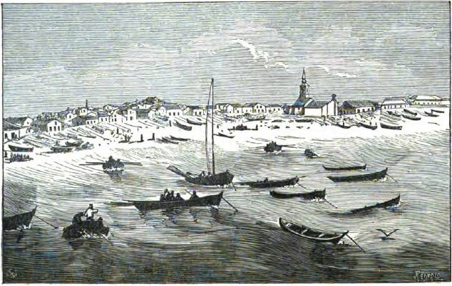 Fishermen's quarter in 19th century, Póvoa de Varzim, Portugal